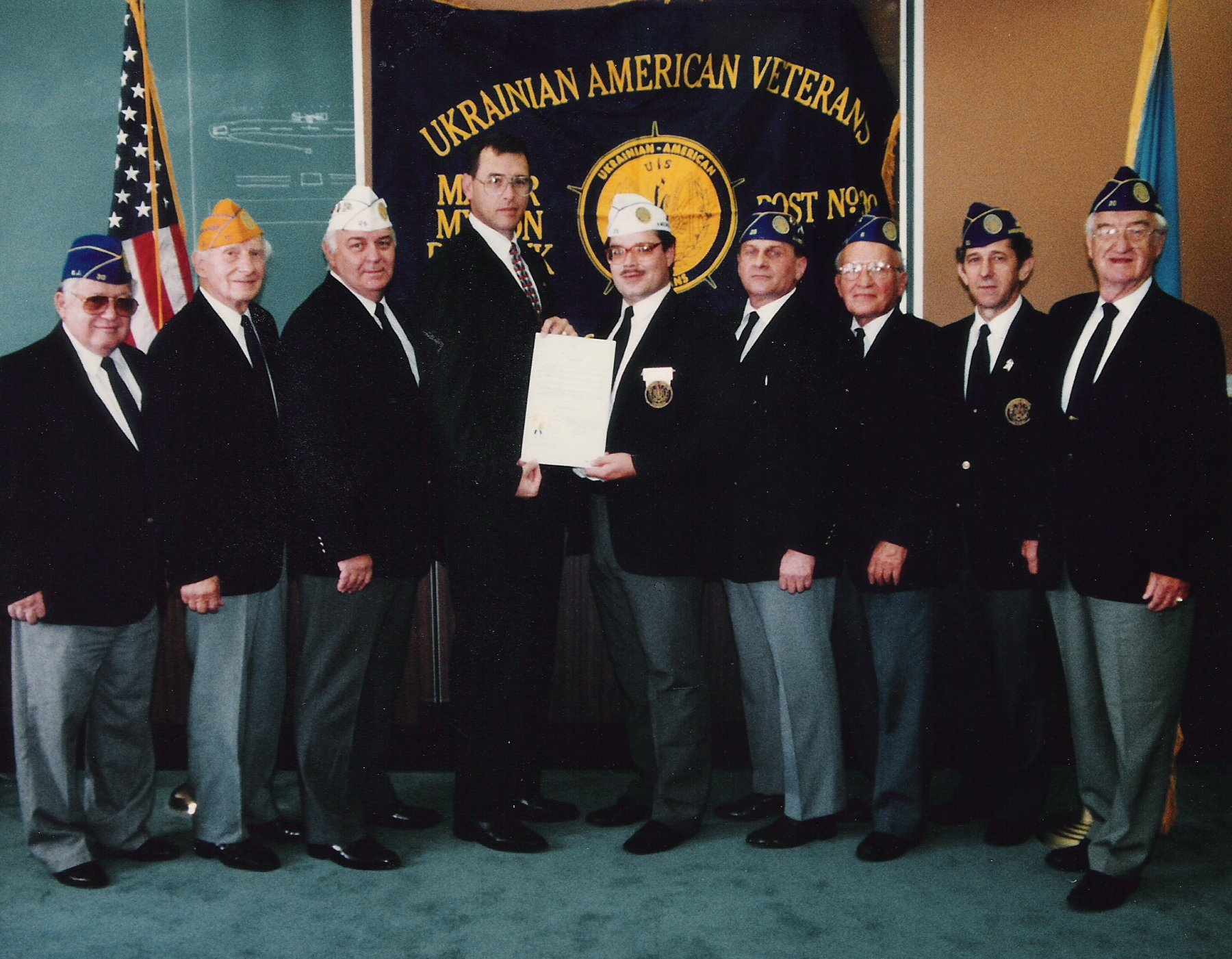 Members of the Ukrainian American Veterans meet with New Jersey Commissioner of Veteran Affiars Michael Warner after the presentation ceremony for Ukrainian Independence Day. From left: Alex Zanko, Michael Wengryn, John Tymash, Commissioner Mike Warner, Commander George A. Miziuk, Robert Iwanczewsky, John Pawlow, Bernard Krawczuk and John Zakanycz. Photo Credit: Roman M. Martyniuk